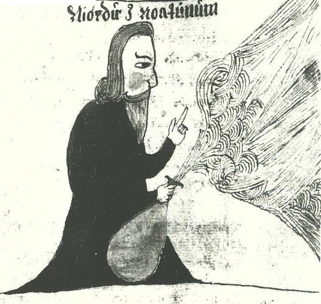 An illustration of the Norse god Njörðr, from an Icelandic 17th century manuscript. A scan of a black and white photography.